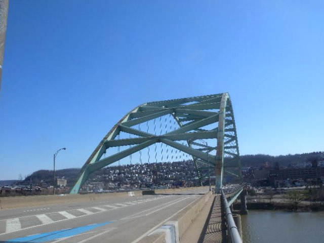 Looking south from western footpath at arch on a sunny afternoon.